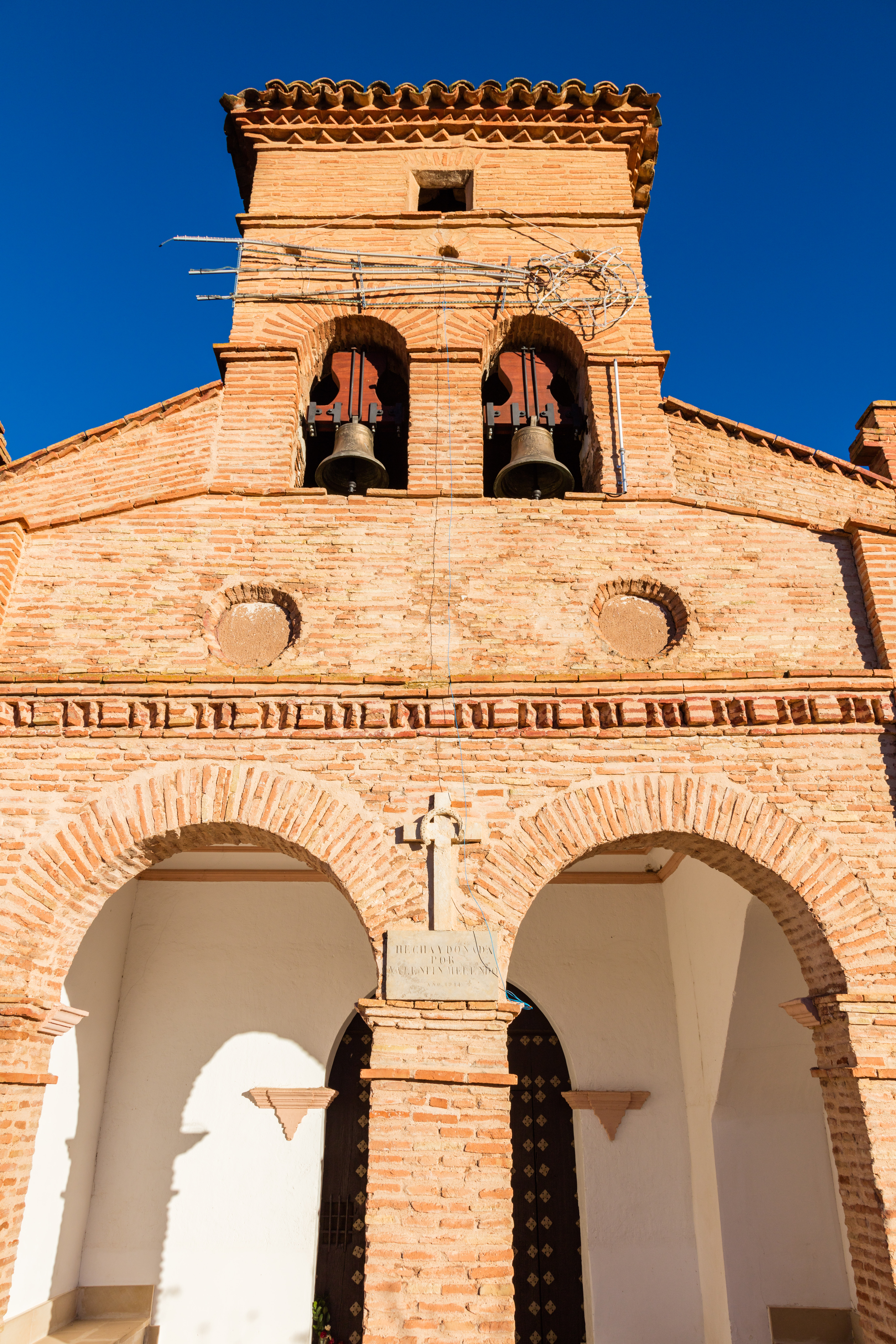 Hermitage of the Lady of the Hill, Castejón de las Armas, Zaragoza, Spain